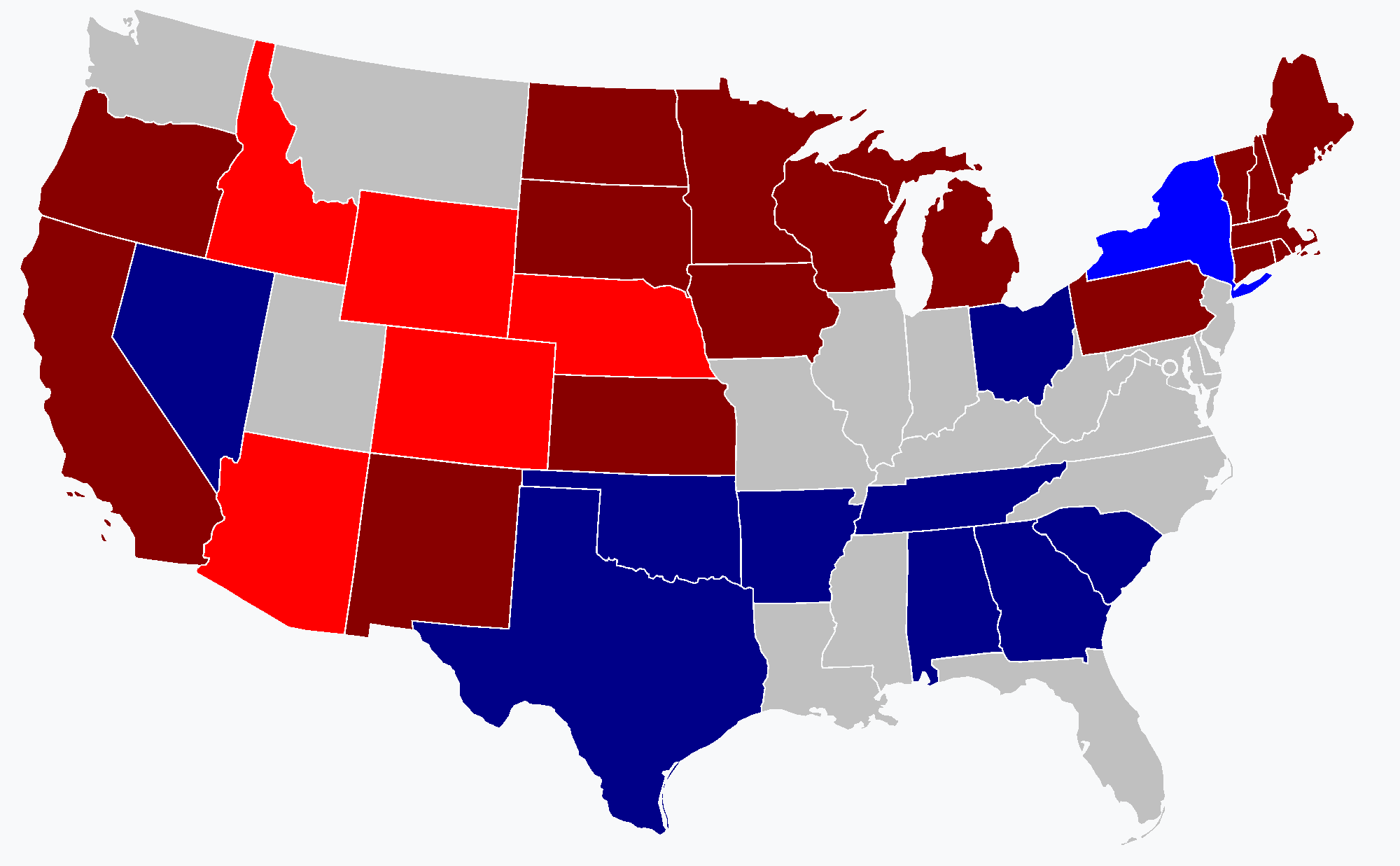 A map showing the results of the 1918 United States Gubernatorial elections